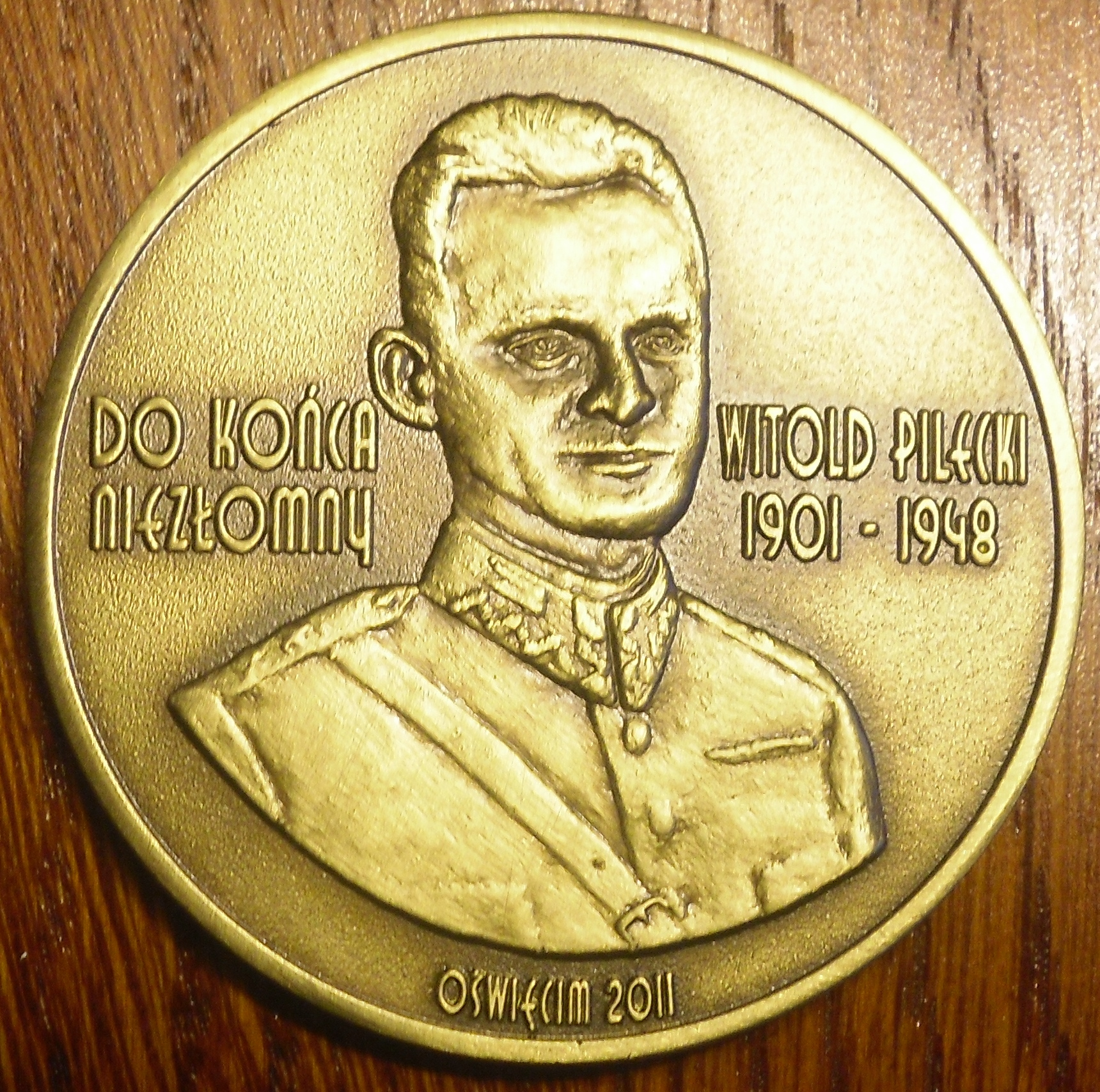 Rittmeister-Witold-Pilecki-Medaille